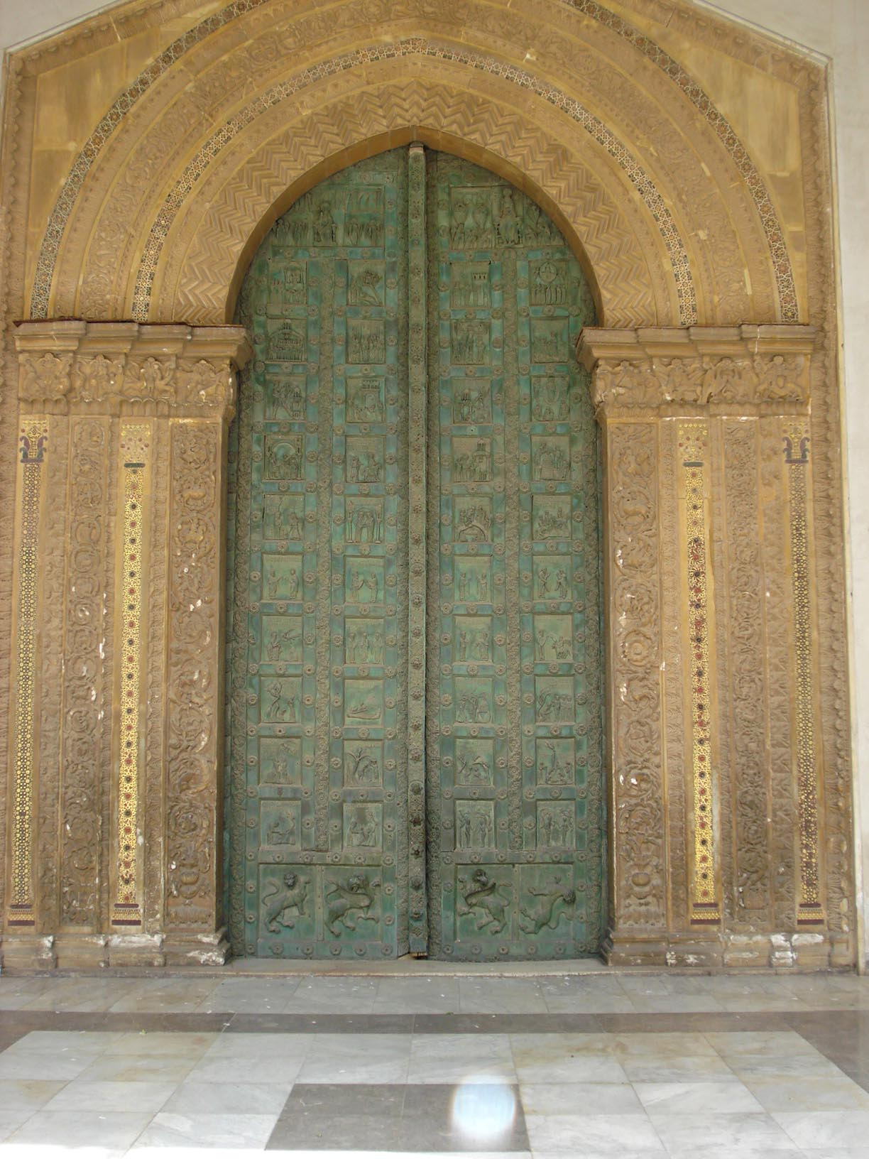 Cathedral of Monreale: bronze doors by Bonanno Pisano (second half of 12th. century).